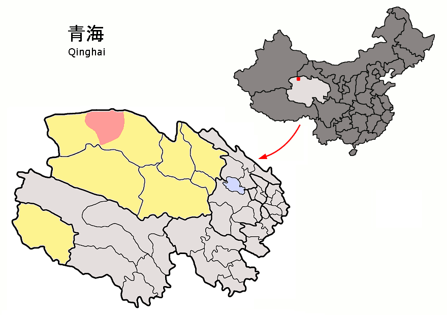 Location of Lenghu Administrative Committee (pink) and Haixi Prefecture (yellow) within Qinghai province of China Map drawn in september 2007 using various sources, mainly : Qinghai province administrative regions GIS data: 1:1M, County level, 1990 Qinghai Counties map from "Plateau Perspectives" (the limits of some county-level subdivisions may not be accurate)